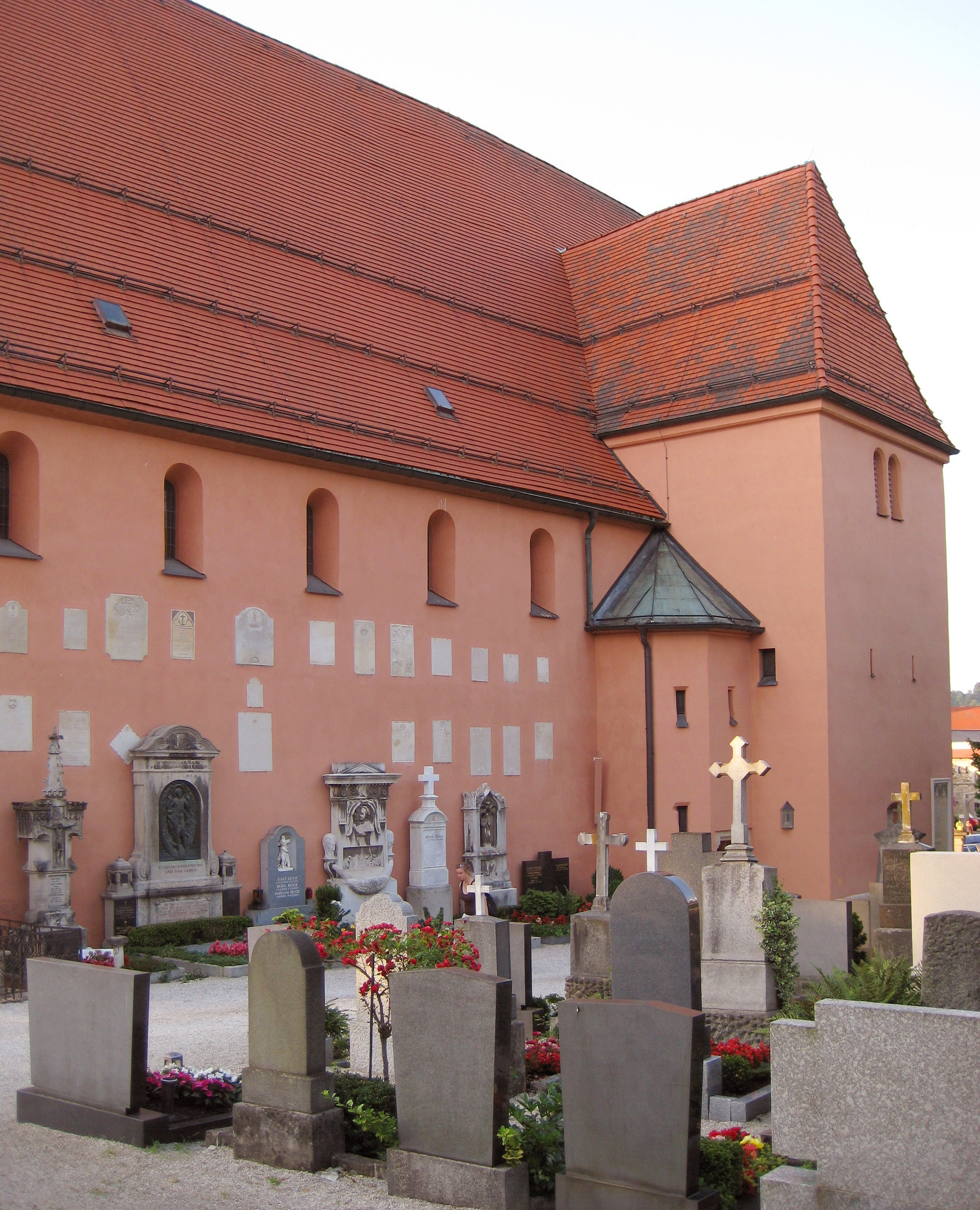 St. Severin, Passau